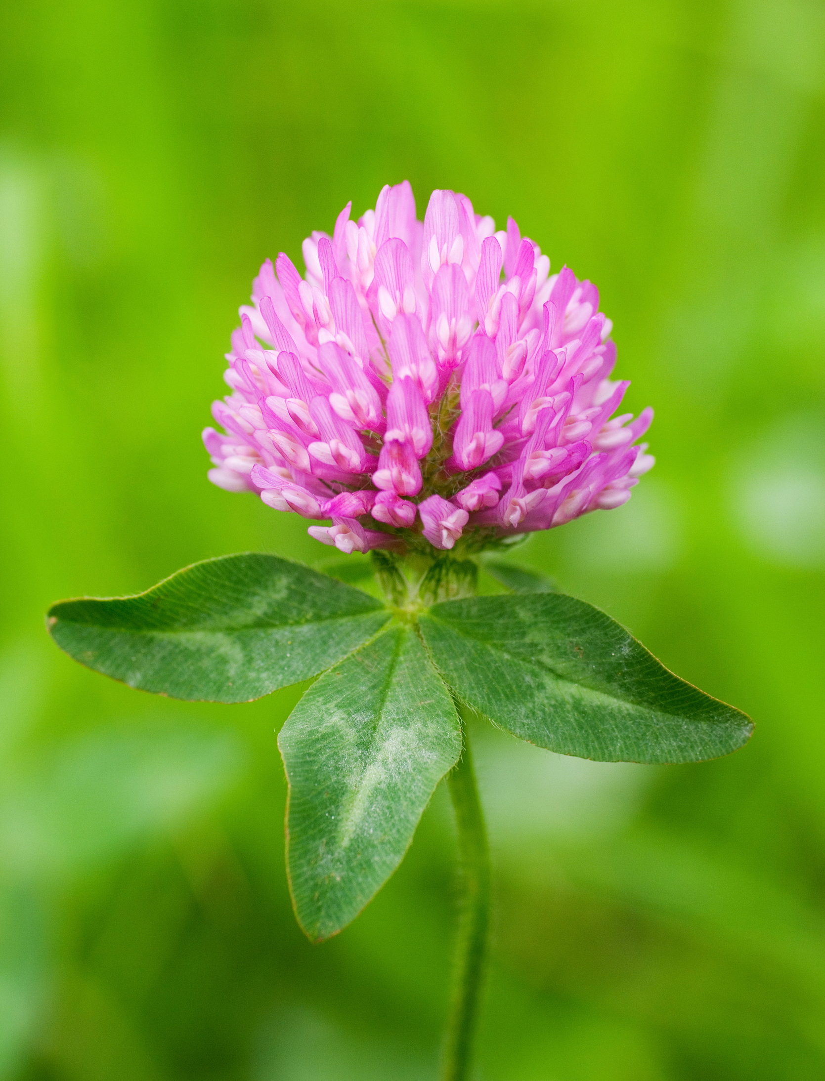 Red clover